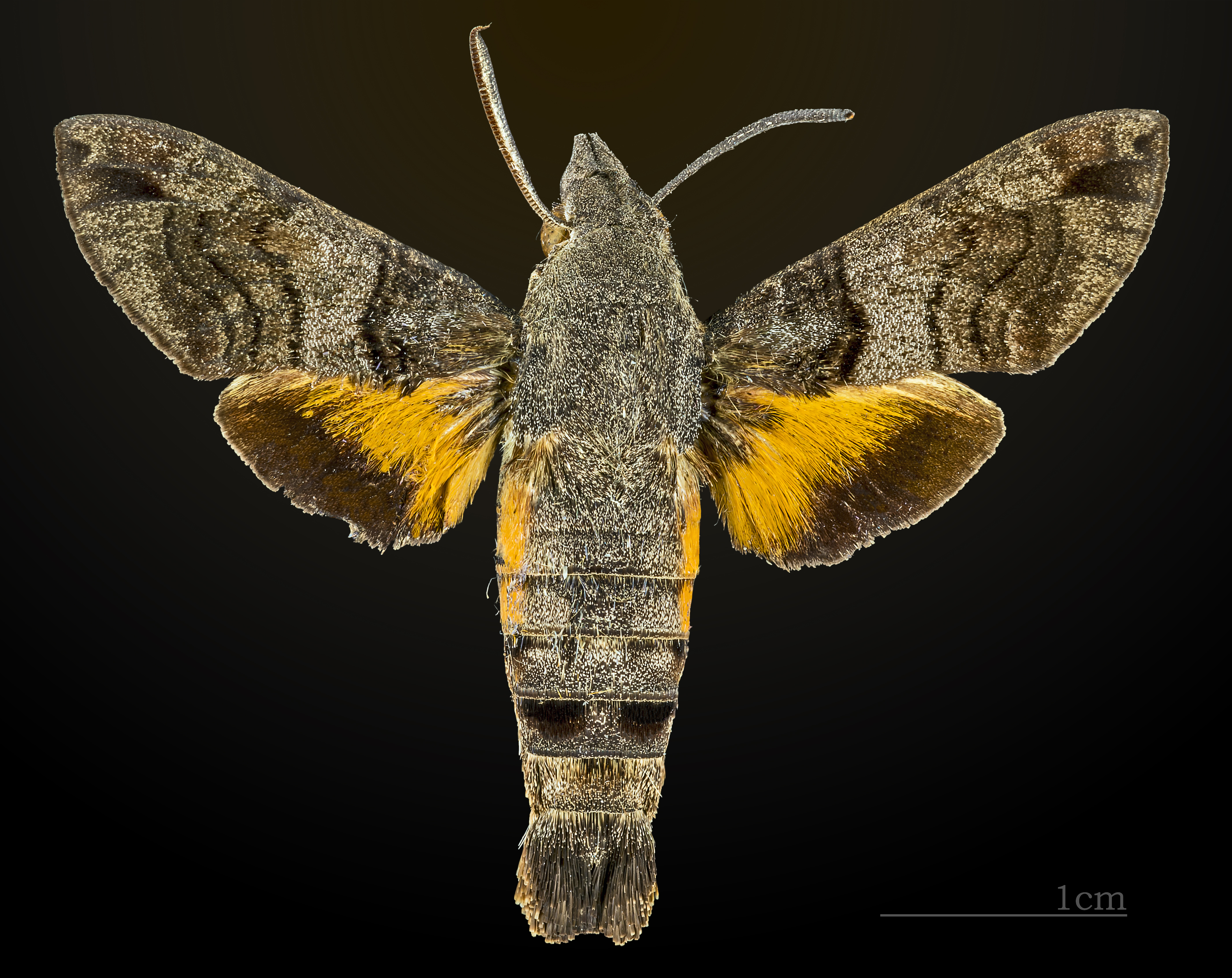 Macroglossum affictitia - Dorsal side Collection of the Mathematician Laurent Schwartz